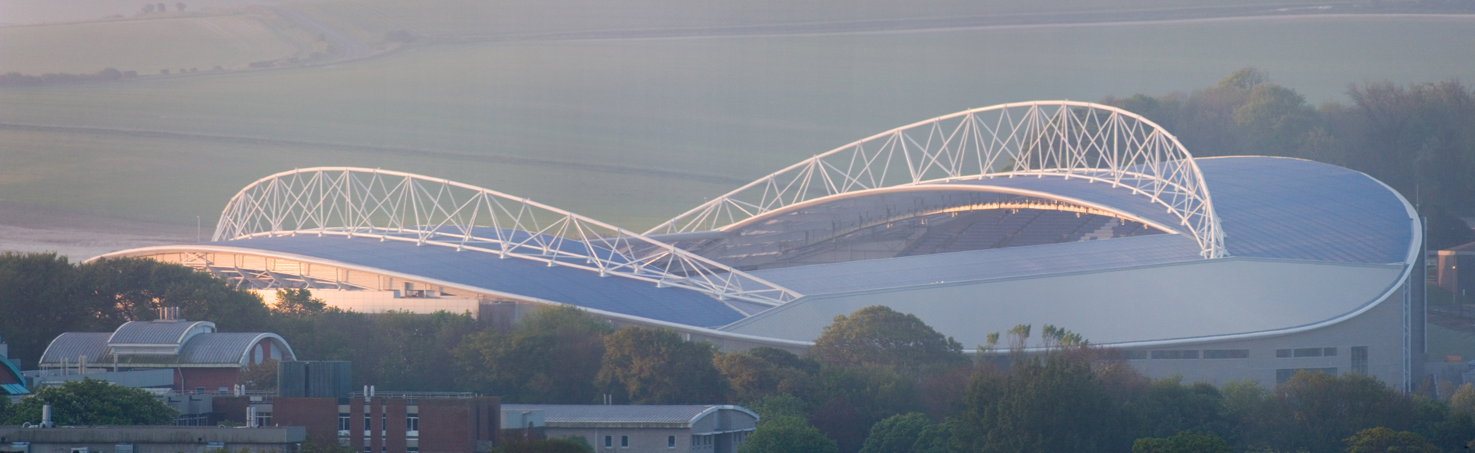 Part of a Set / Slideshow. A view of the Falmer Stadium (also known as the American Express Community Stadium or "The Amex") near Brighton, East Sussex, UK. The "mixed use" stadium is primarily the home ground of "The Seagulls" - Brighton and Hove Albion Football [Soccer] Club. Designed by architects from the KSS Design Group, the saddle / Pringle shaped curves of the structure are intended to echo the gentle hills of the surrounding chalk downs. This panorama is made up of three images stitched together. Seen from the north, shortly after sunrise.